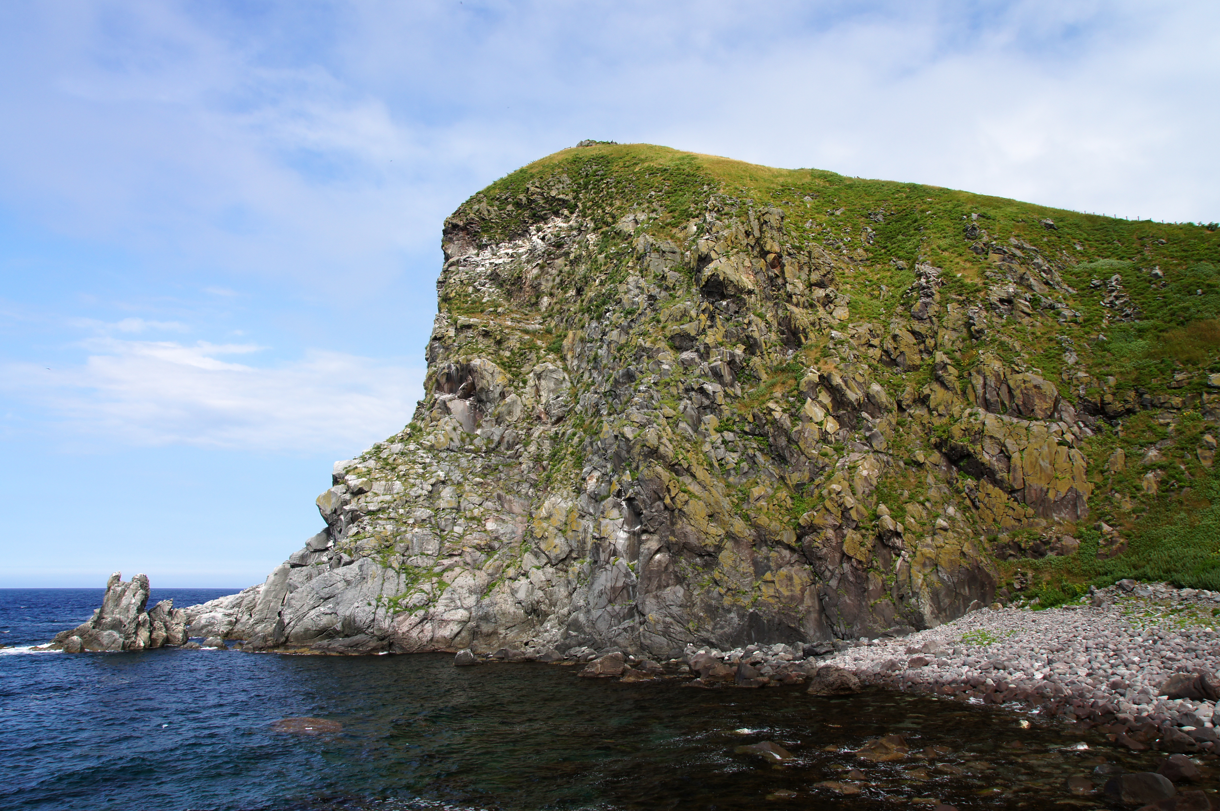 Cape Peshi in Rishiri Island, Hokkaido, Japan.